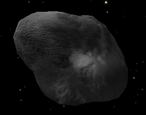 Artistic image of Psamathe